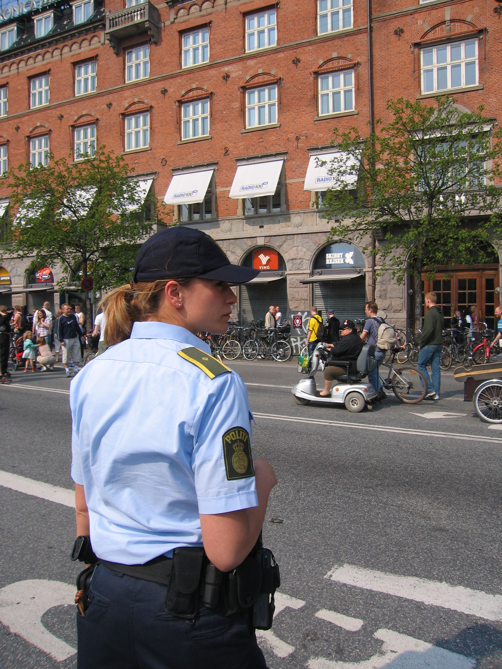 Female police officer of Denmark